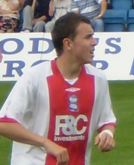 Jordon Mutch of Birmingham City F.C. during a friendly match against Gillingham F.C. at the Priestfield Stadium